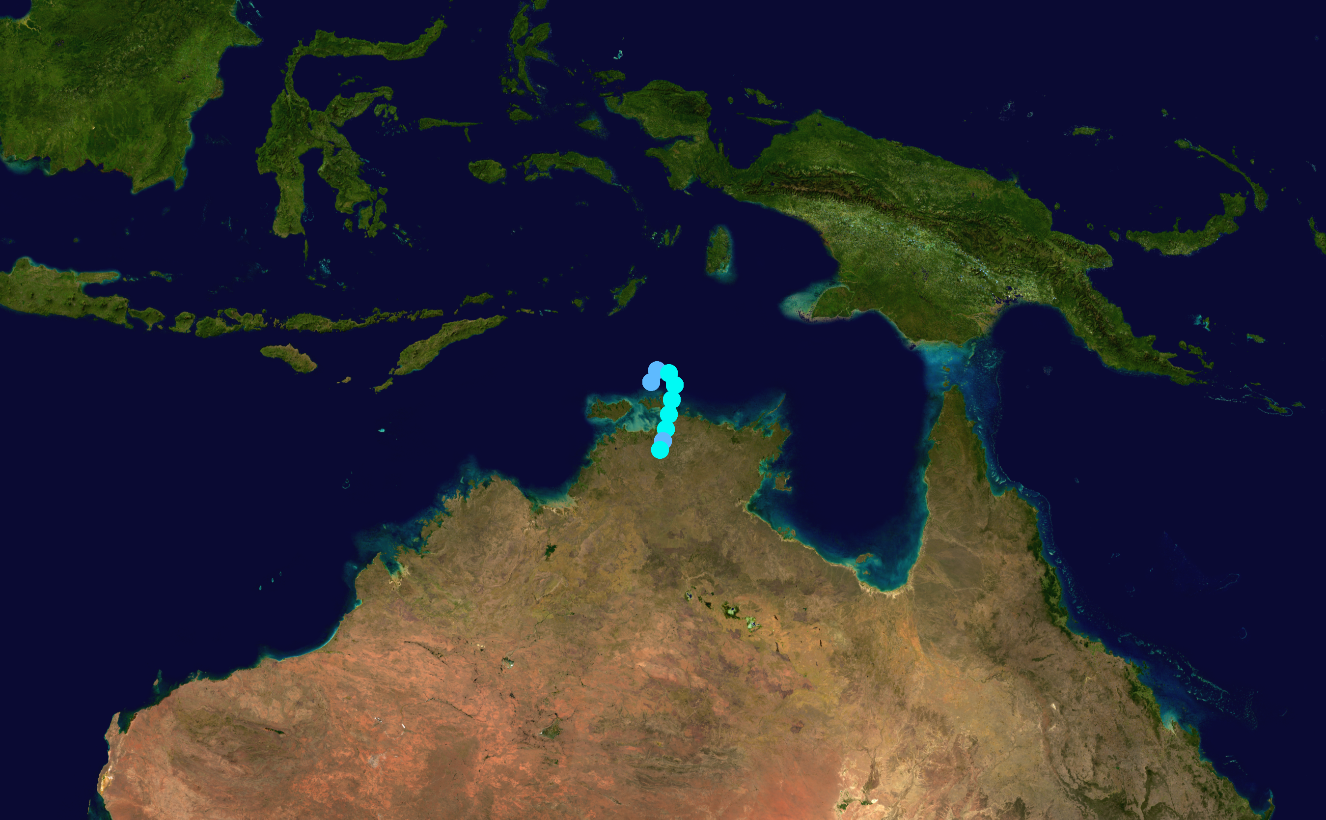 Track map of Tropical Cyclone Grant of the 2011-12 Australian region cyclone season. The points show the location of the storm at 6-hour intervals. The colour represents the storm's maximum sustained wind speeds as classified in the Saffir–Simpson scale (see below), and the shape of the data points represent the nature of the storm, according to the legend below. Saffir–Simpson scale Tropical depression≤38 mph≤62 km/h Category 3111–129 mph178–208 km/h Tropical storm39–73 mph63–118 km/h Category 4130–156 mph209–251 km/h Category 174–95 mph119–153 km/h Category 5≥157 mph≥252 km/h Category 296–110 mph154–177 km/h Unknown Storm type Tropical cyclone Subtropical cyclone Extratropical cyclone / Remnant low / Tropical disturbance / Monsoon depression